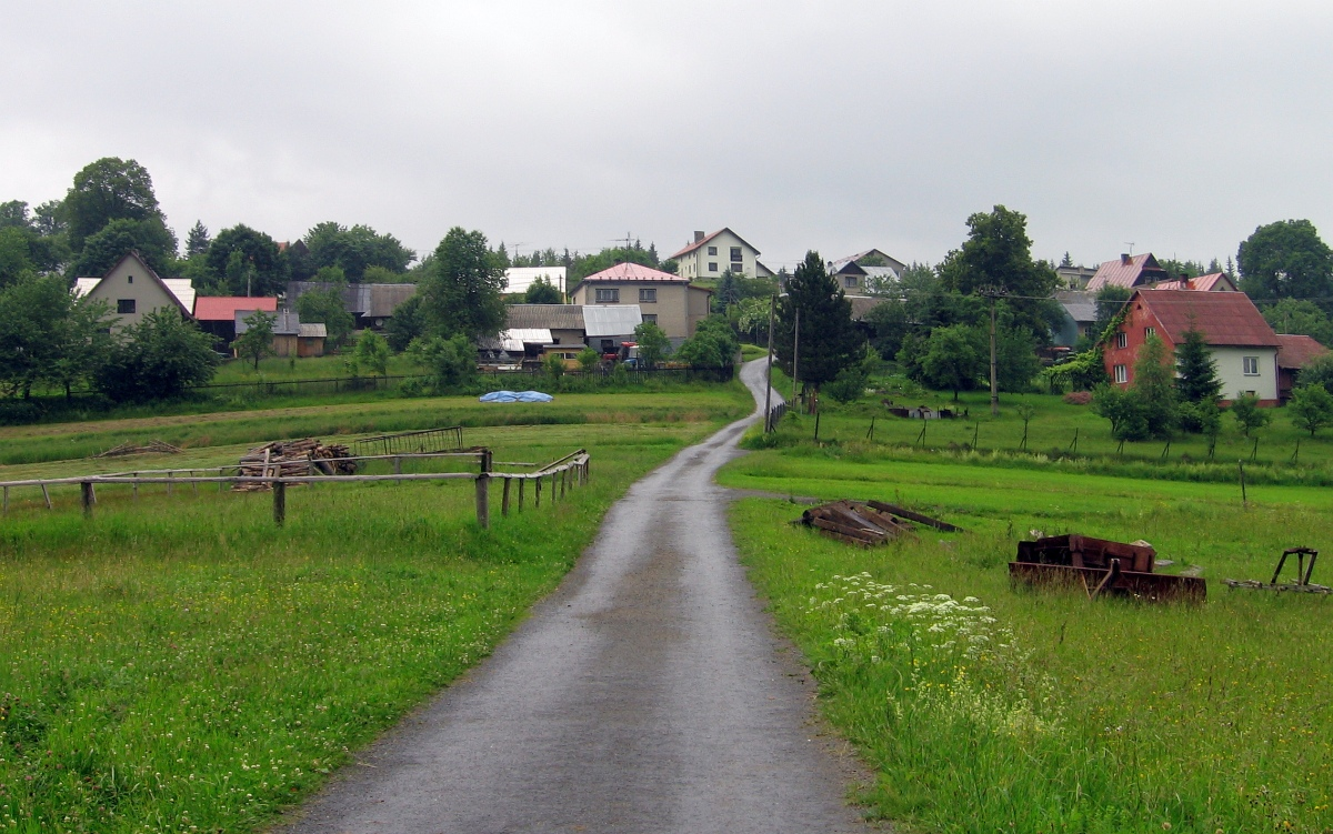 Hrčava village (Moravian-Silesian Region, Czech Republic).